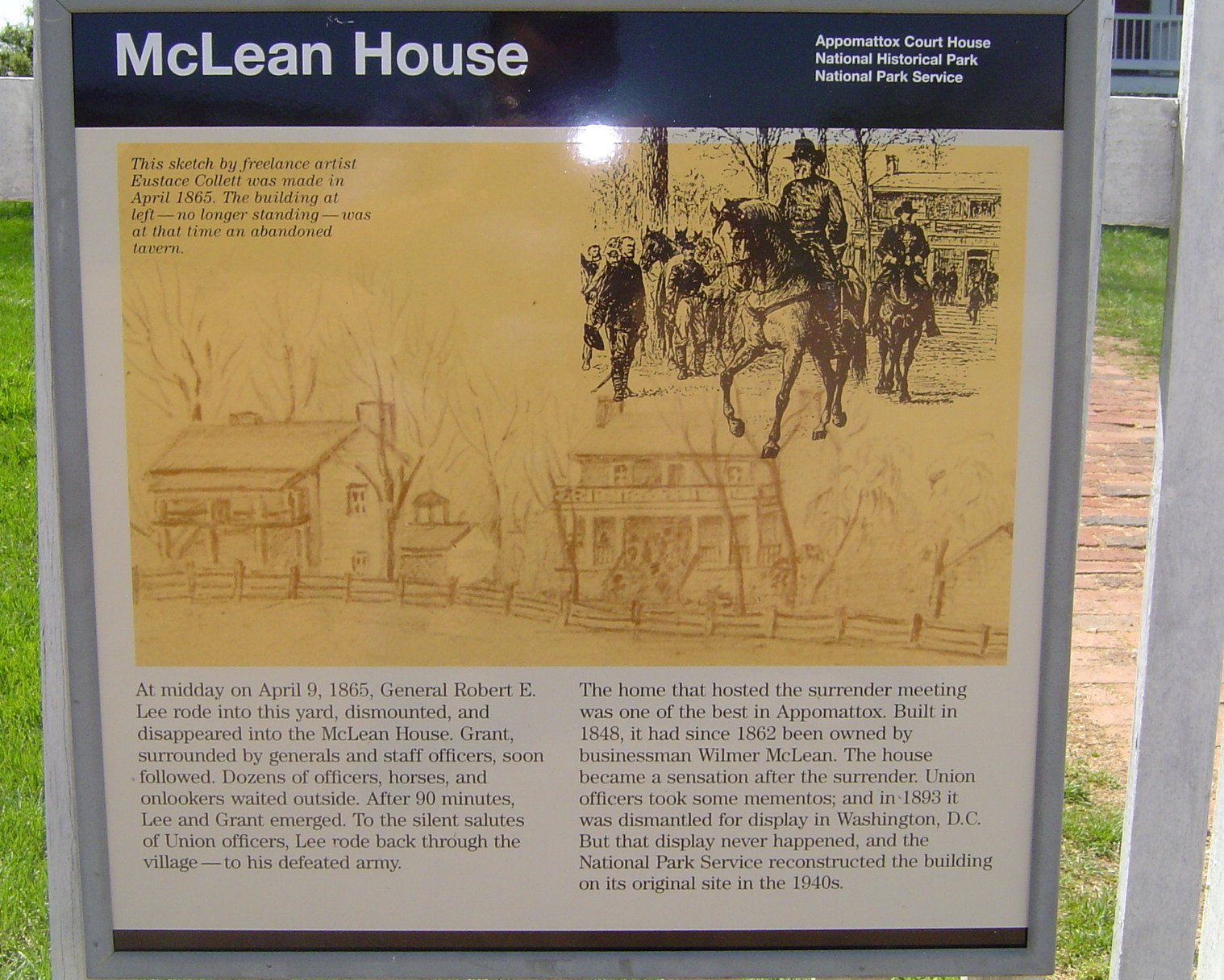 McLean House marker at Appomattox Court House, Virginia